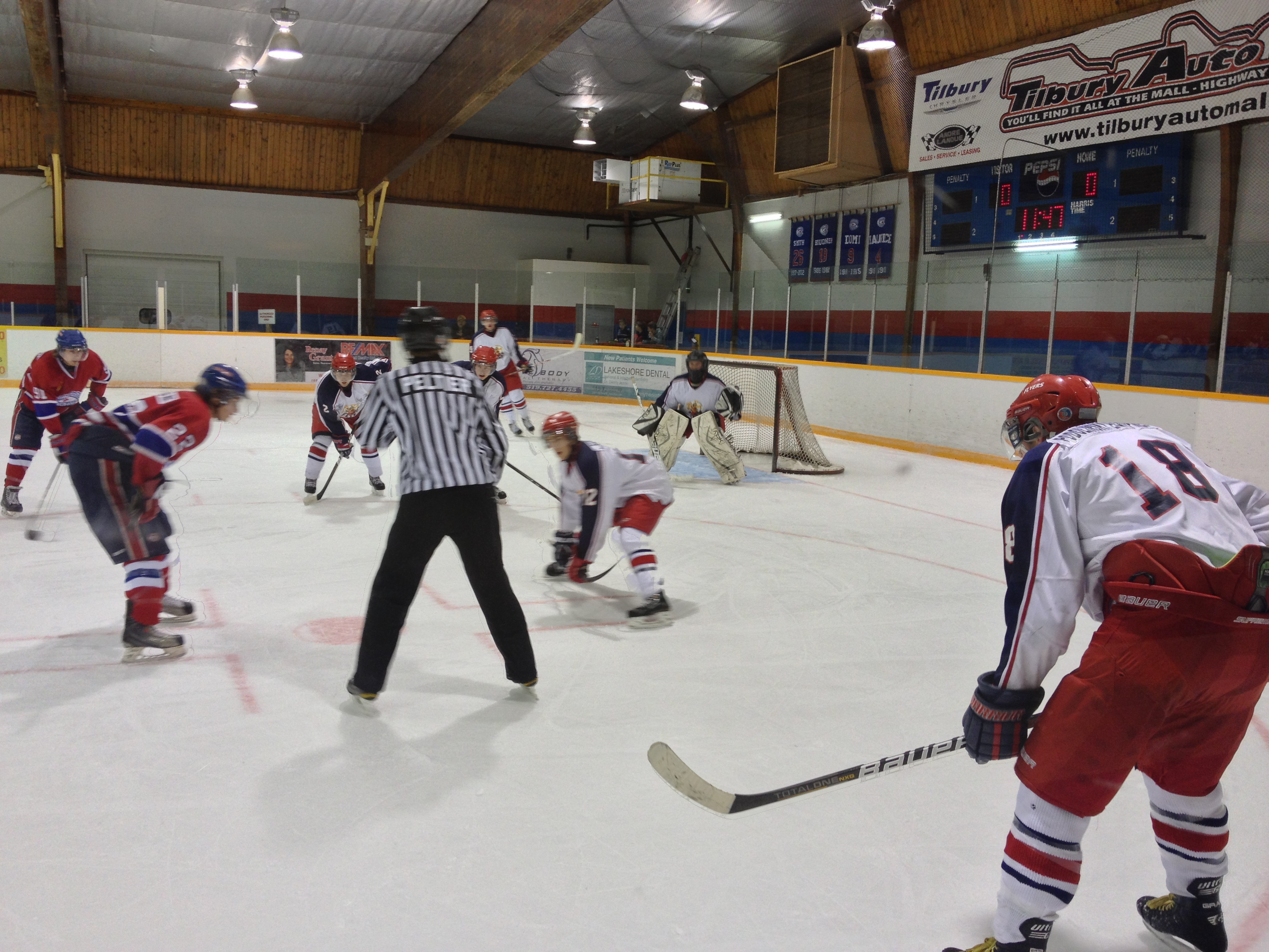 These images of GLJHL action are taken by Devan Mighton.